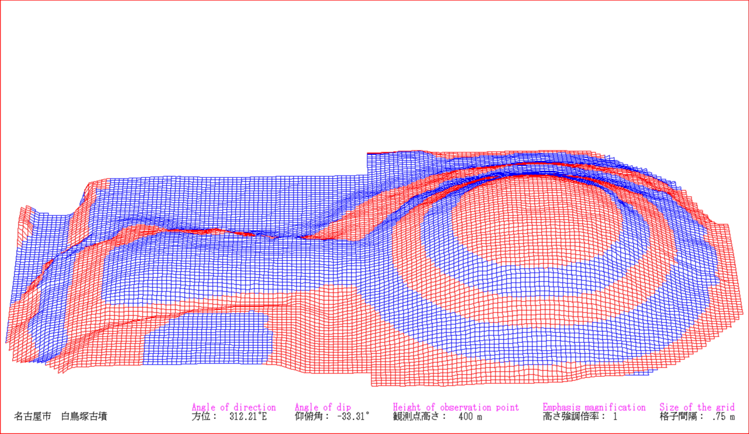 I who am a contributor drew the picture by a software which developed by myself. The survey map which I referred to depends on "「白鳥塚古墳墳丘測量図」『埋蔵文化財調査報告書 57 国史跡白鳥塚古墳(第1次～第5次範囲確認調査)』 名古屋市教育委員会 （2007年）". This is a drawing of present situation (not a drawing of a restored mound). The drawing depends on combination of wire frame and height eight phases classification. Perspective projection.